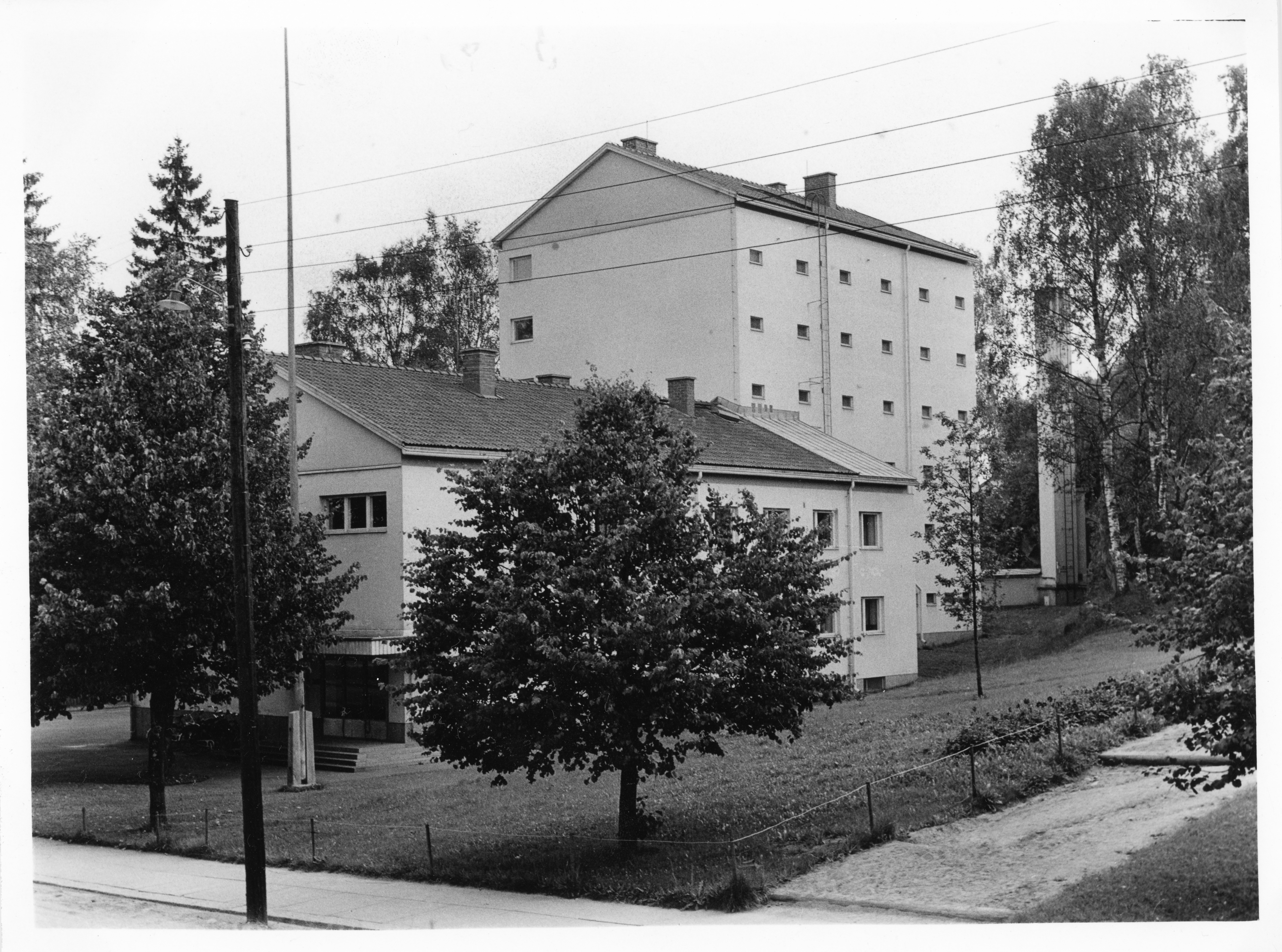 The Savonia-Karelia Provincial Archives in Mikkeli in 1963.